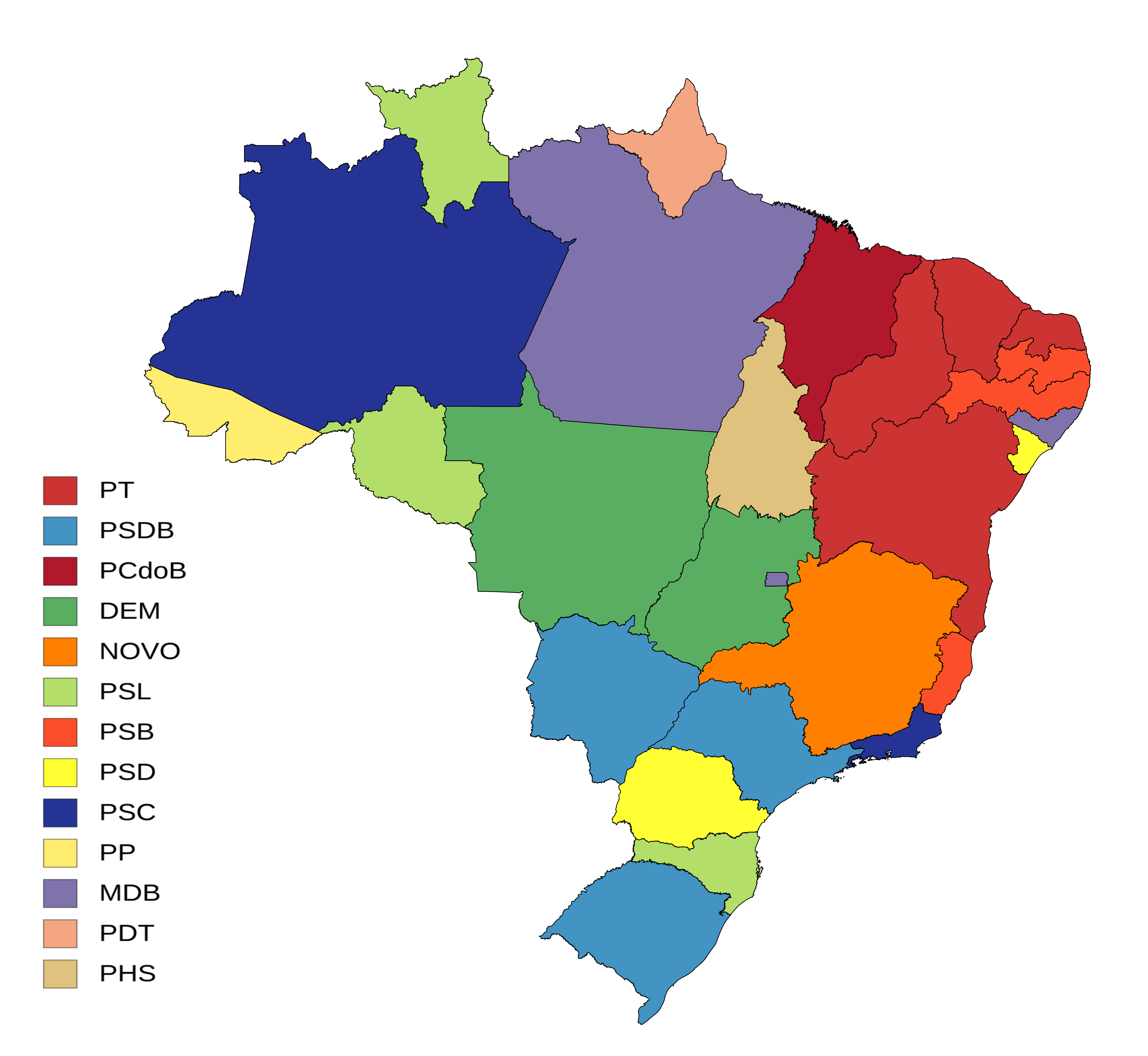 A map of Brazil showing the political parties of the state governors elected for the period of 2019 to 2022. Each state is colored according to the political party its respective governor belongs to.